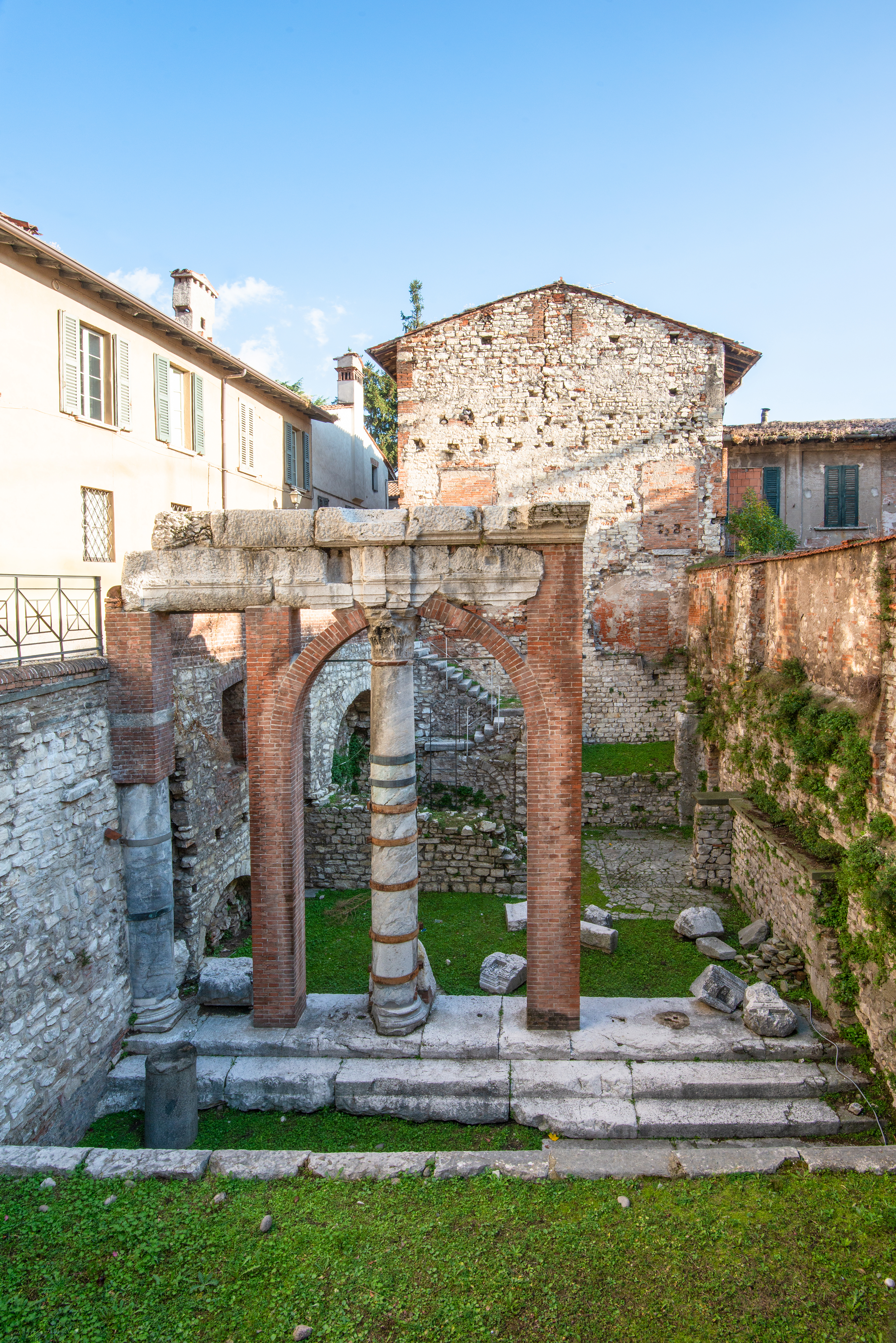 Piazza del Foro square in Brescia.